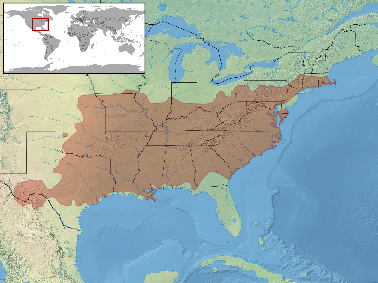 geographic distribution of Agkistrodon contortrix (Native: Mexico; United States)